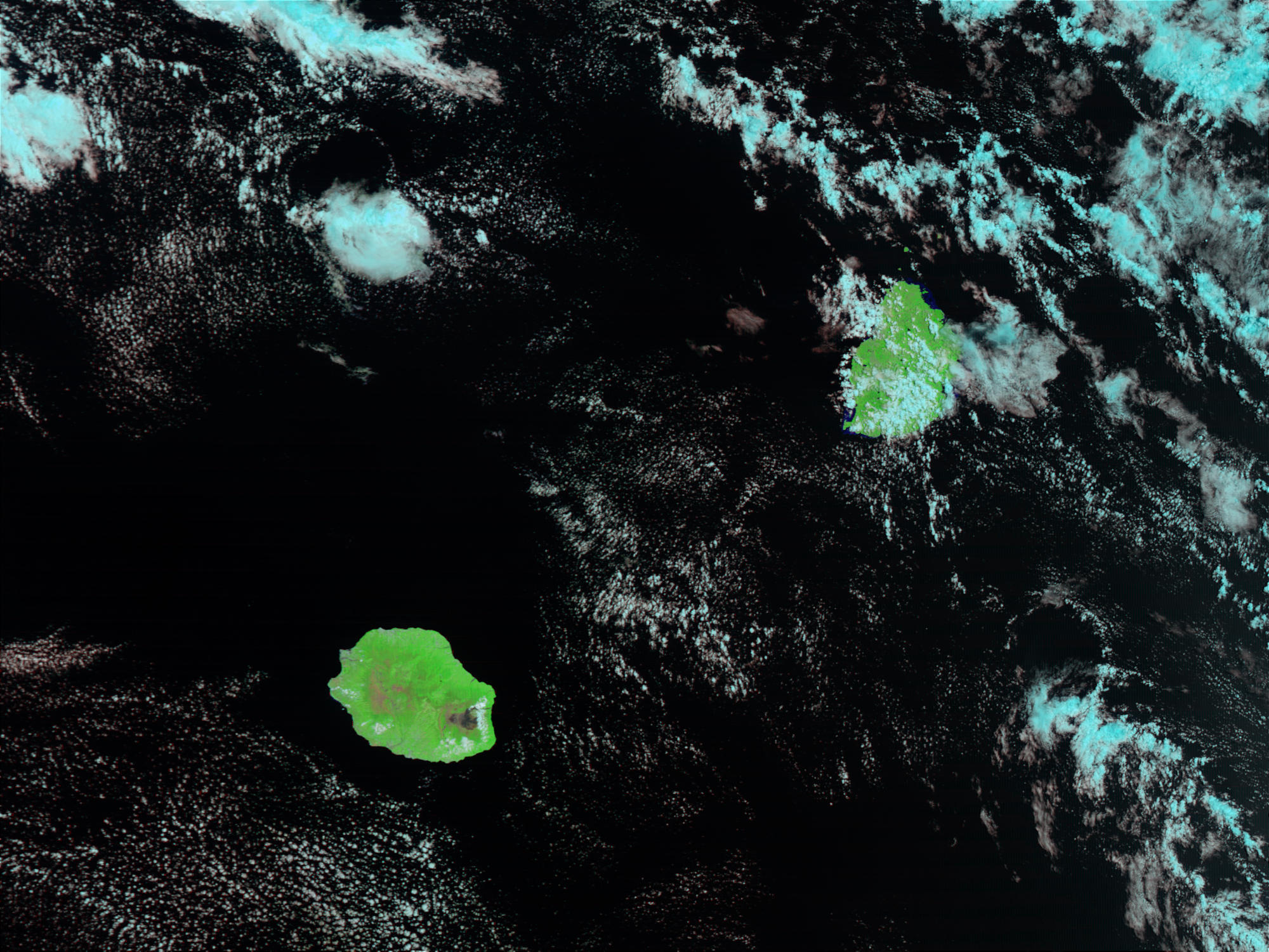 On January 16, 2002, lava that had begun flowing on January 5 from the Piton de la Fournaise volcano on the French island of Réunion abruptly decreased, marking the end of the volcano’s most recent eruption. This false color MODIS images of Réunion, located off the southeastern coast of Madagascar in the Indian Ocean, was captured on January 18, two days after the end of the eruption. See also: Image:Ev11558 Reunion.A2002016.0635.721.250m.jpg